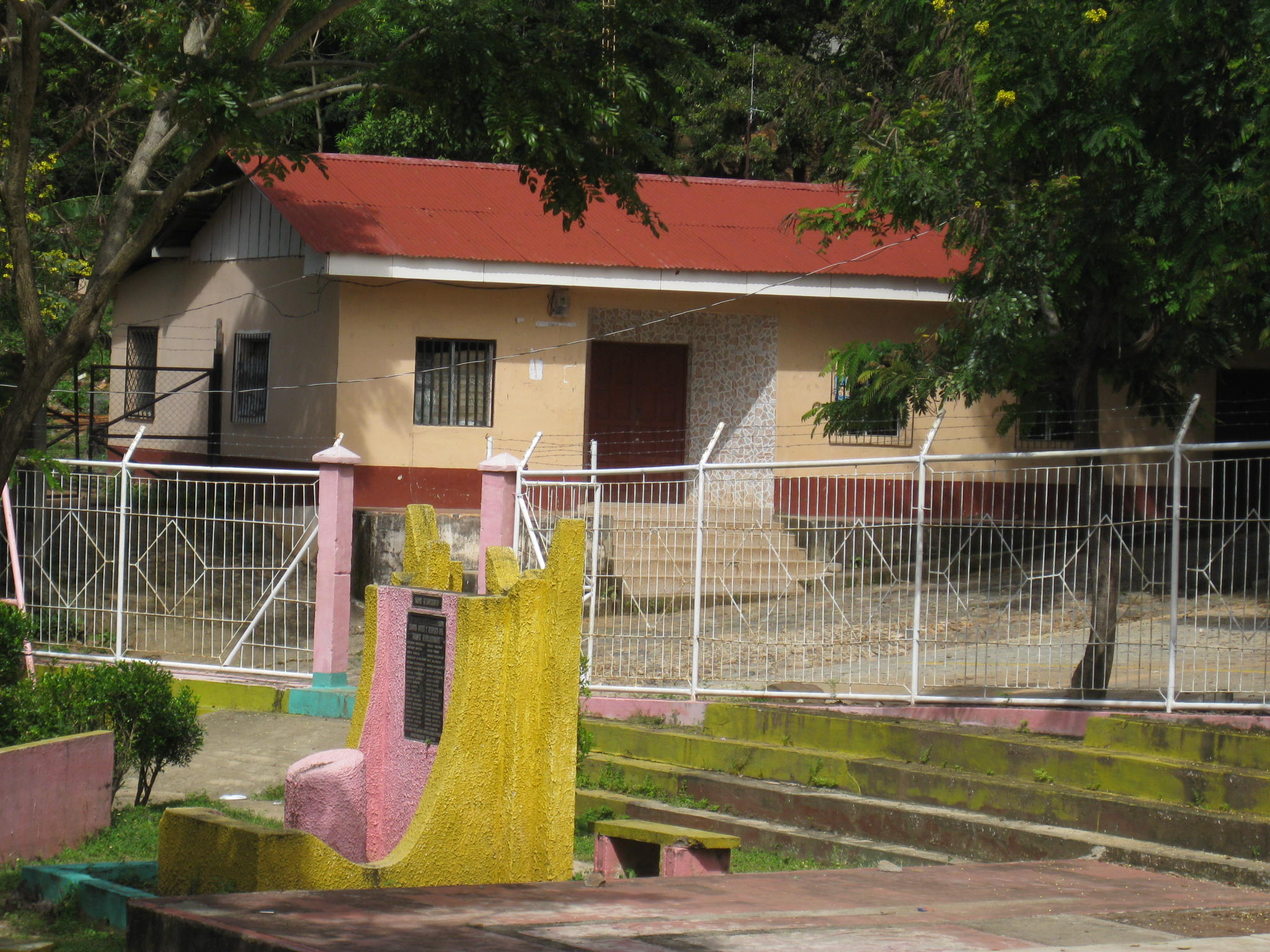 Municipality of San Juan de Cinco Pinos, Chinandega Department, Nicaragua.